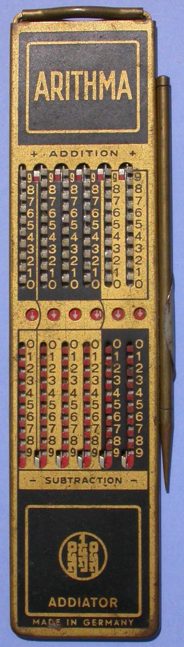 A picture of an addiator a mechanical calculator